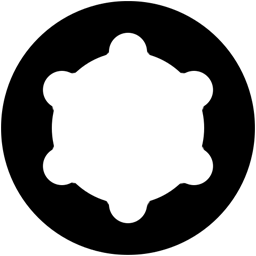 Diagram of a screw head